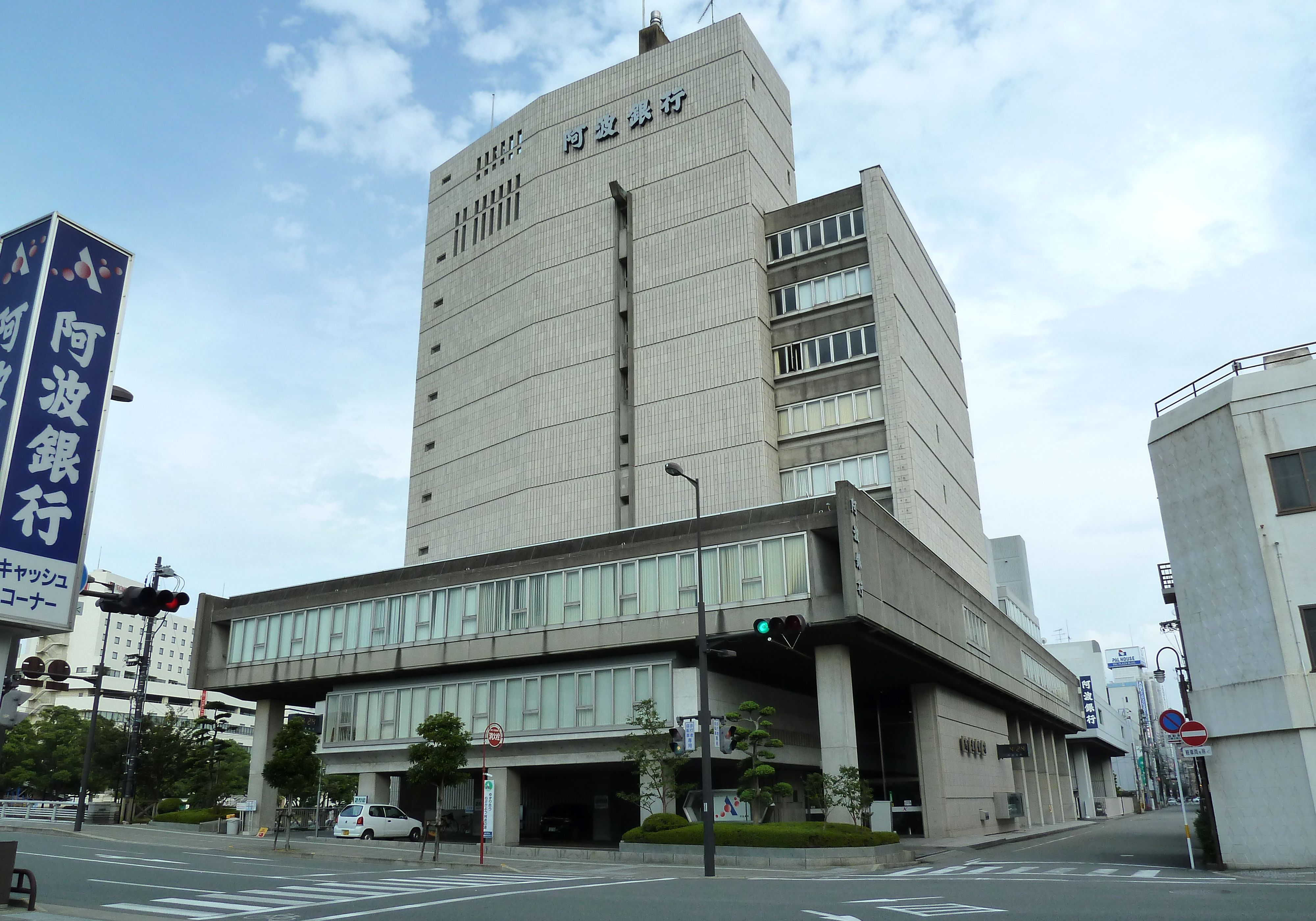 Awa Bank head office (Bank of Japan Tokushima local office) in Tokushima, Tokushima prefecture